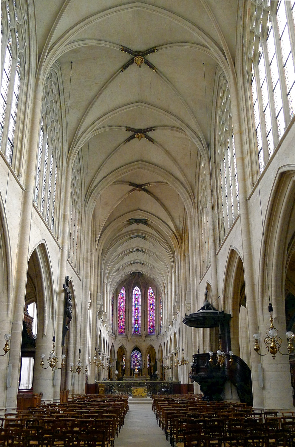 Saint-Germain l'Auxerrois church - Paris